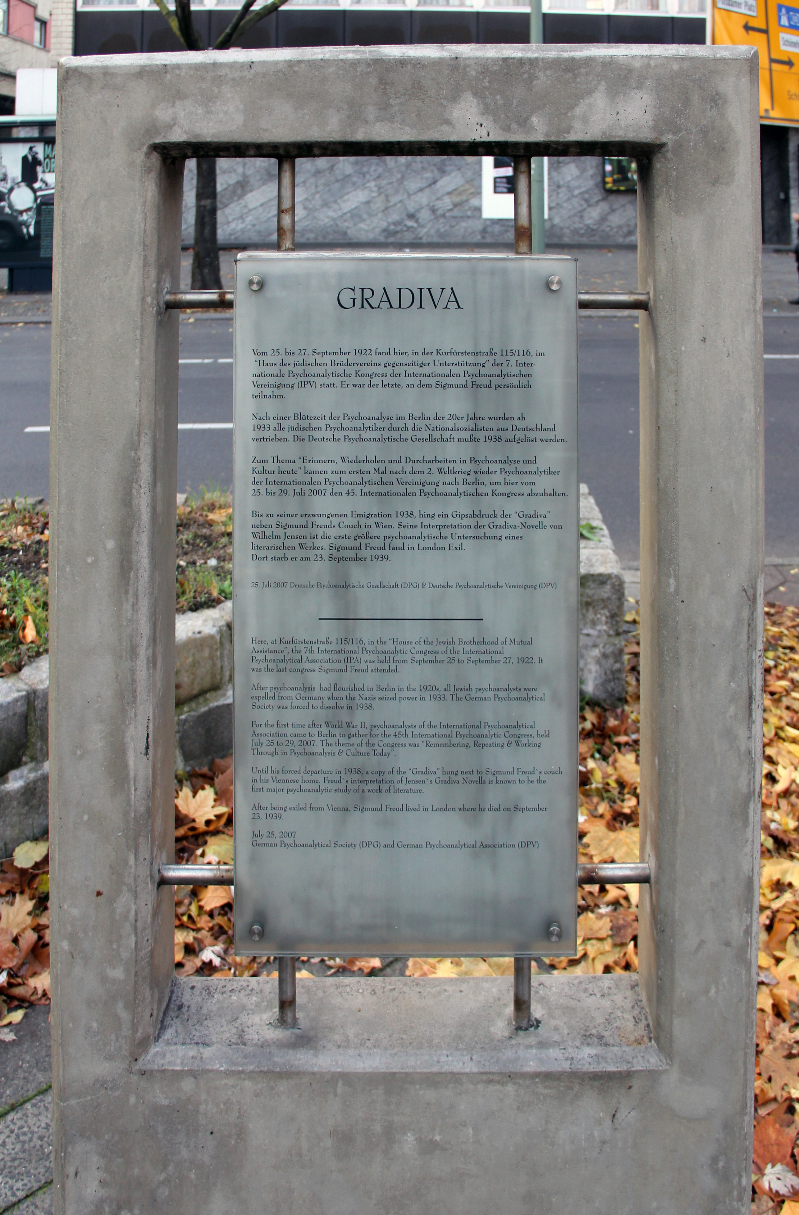 Memorial plaque, Gradiva, Kurfürstenstraße 116, Berlin-Schöneberg, Germany